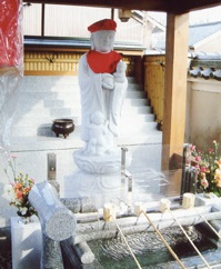 biwako jizou